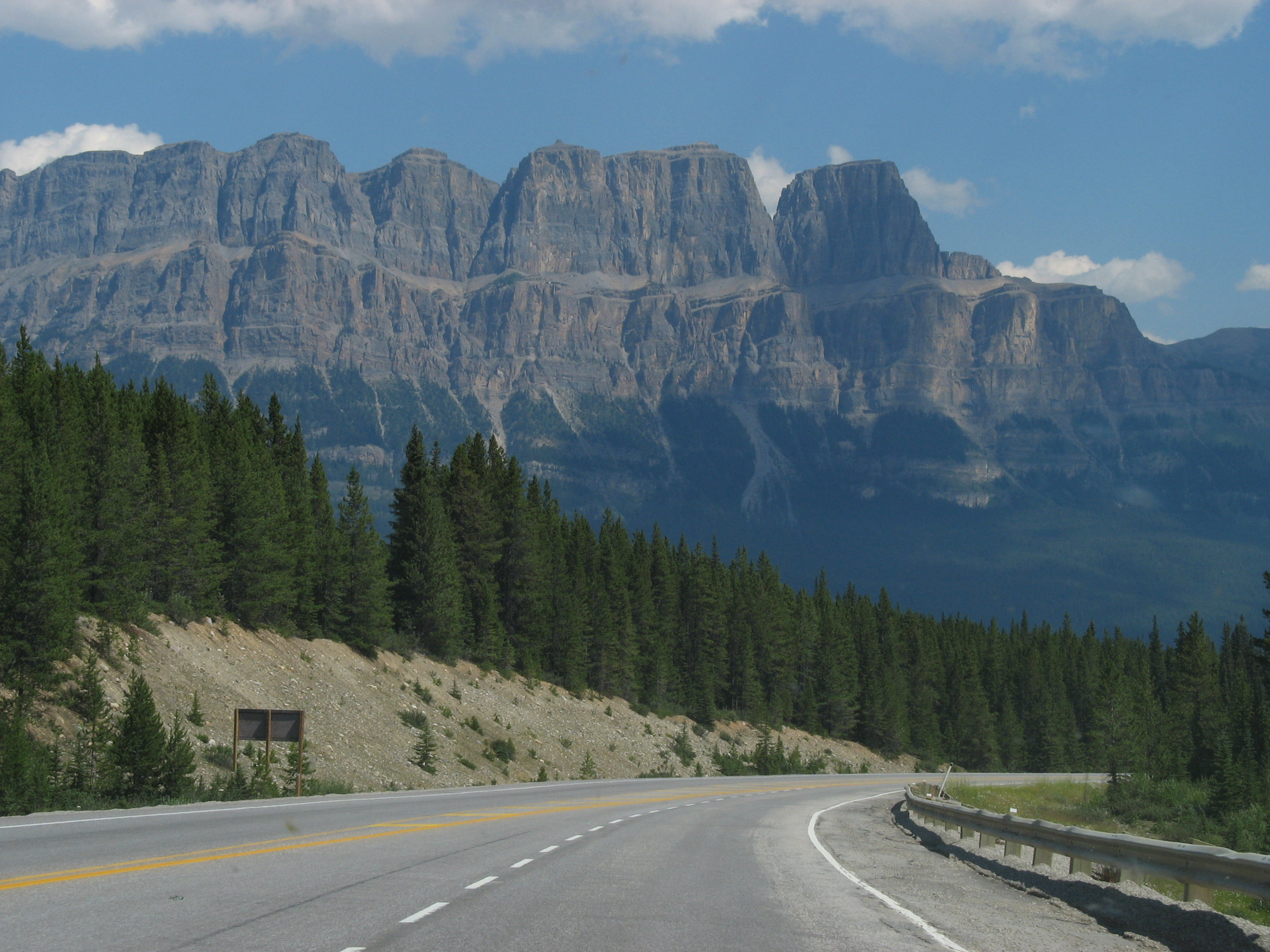 I took this picture leaving Kootenay National Park and entering Banff National Park.